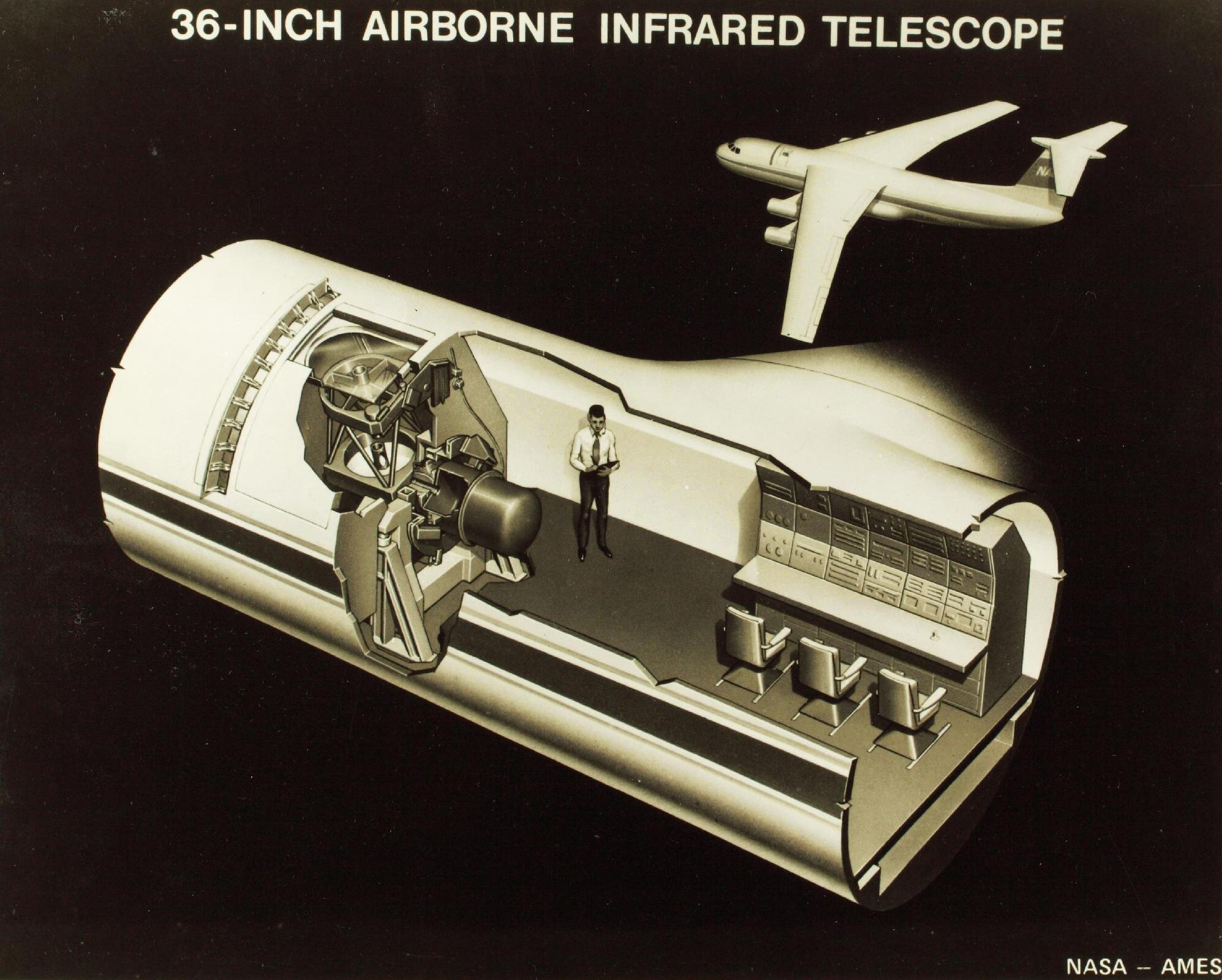 Title: 36 Inch Airborne Infrared Telescope Catalog #: 08_01672 Additional Information: Used on C-141 Repository: San Diego Air and Space Museum Archive